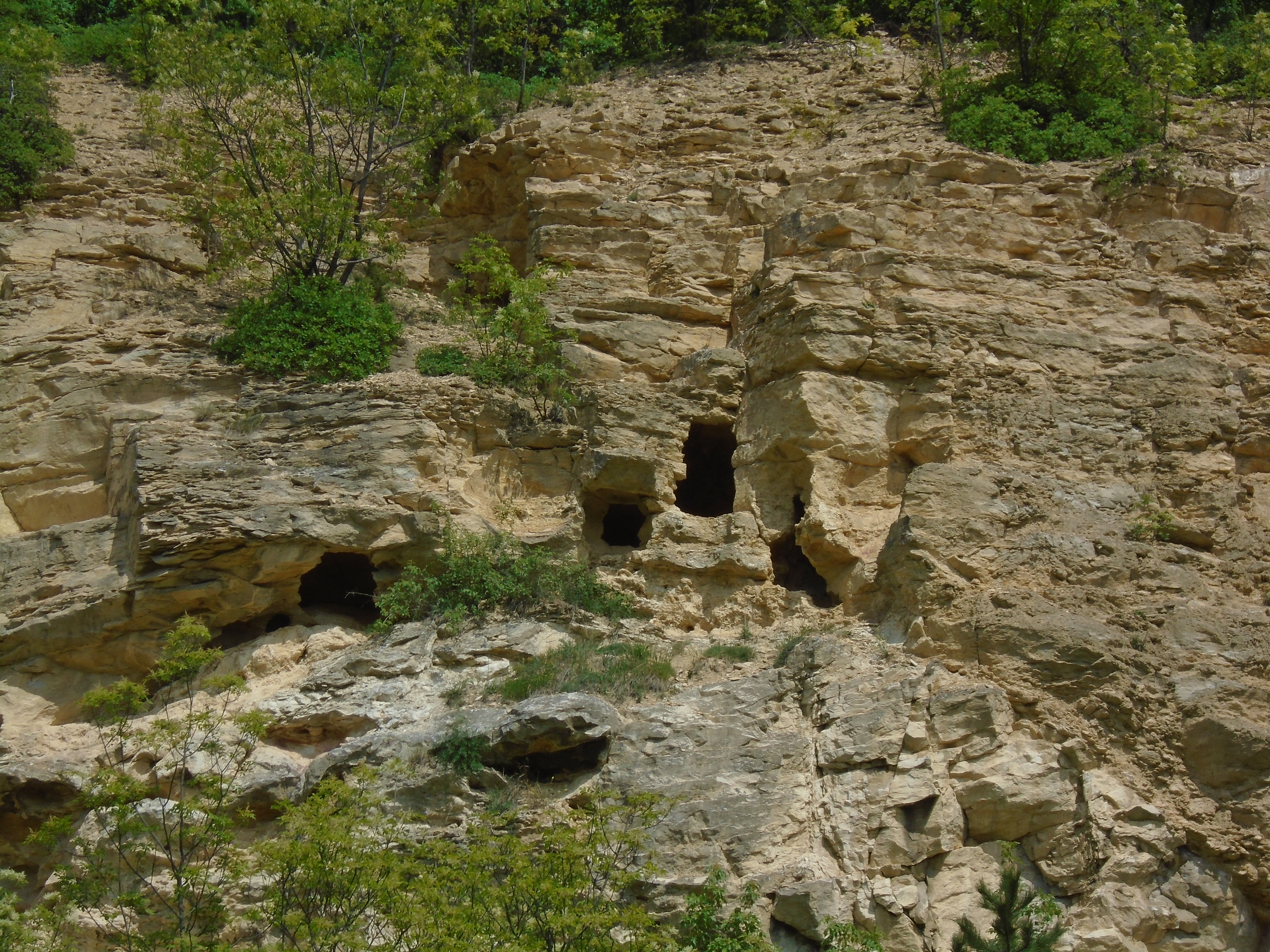 Entrances of Keleti quarry No 5 Cave.